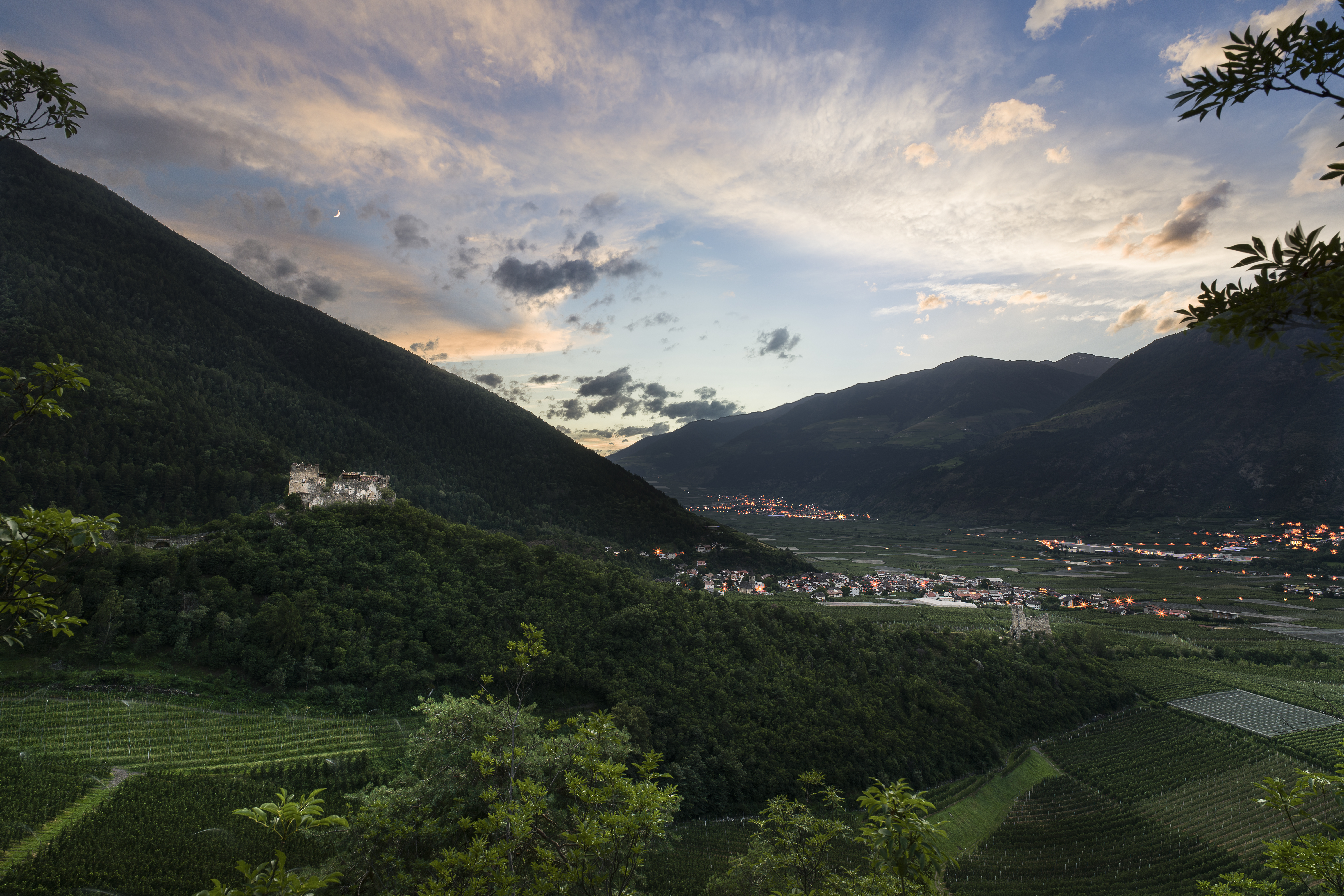 Morter, South Tyrol at sunset